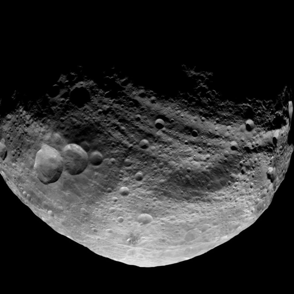 The dark side of 4 Vesta imaged by the Dawn spacecraft from a distance of about 3,200 miles (5,200 km).